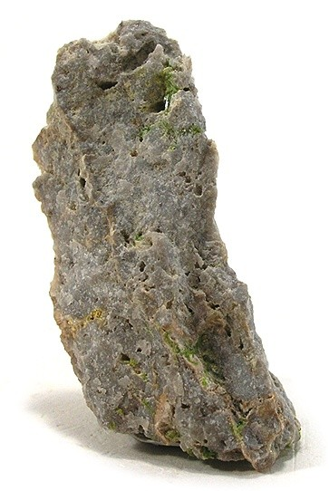 Rodalquilarite, Alunite Locality: Wendy open pit, Tambo Mine, El Indio deposit, Elqui Province, Coquimbo Region, Chile (Locality at ) Size: 4.8 x 2 x 1.5 cm. A reference specimen for the species, with minute crystals.